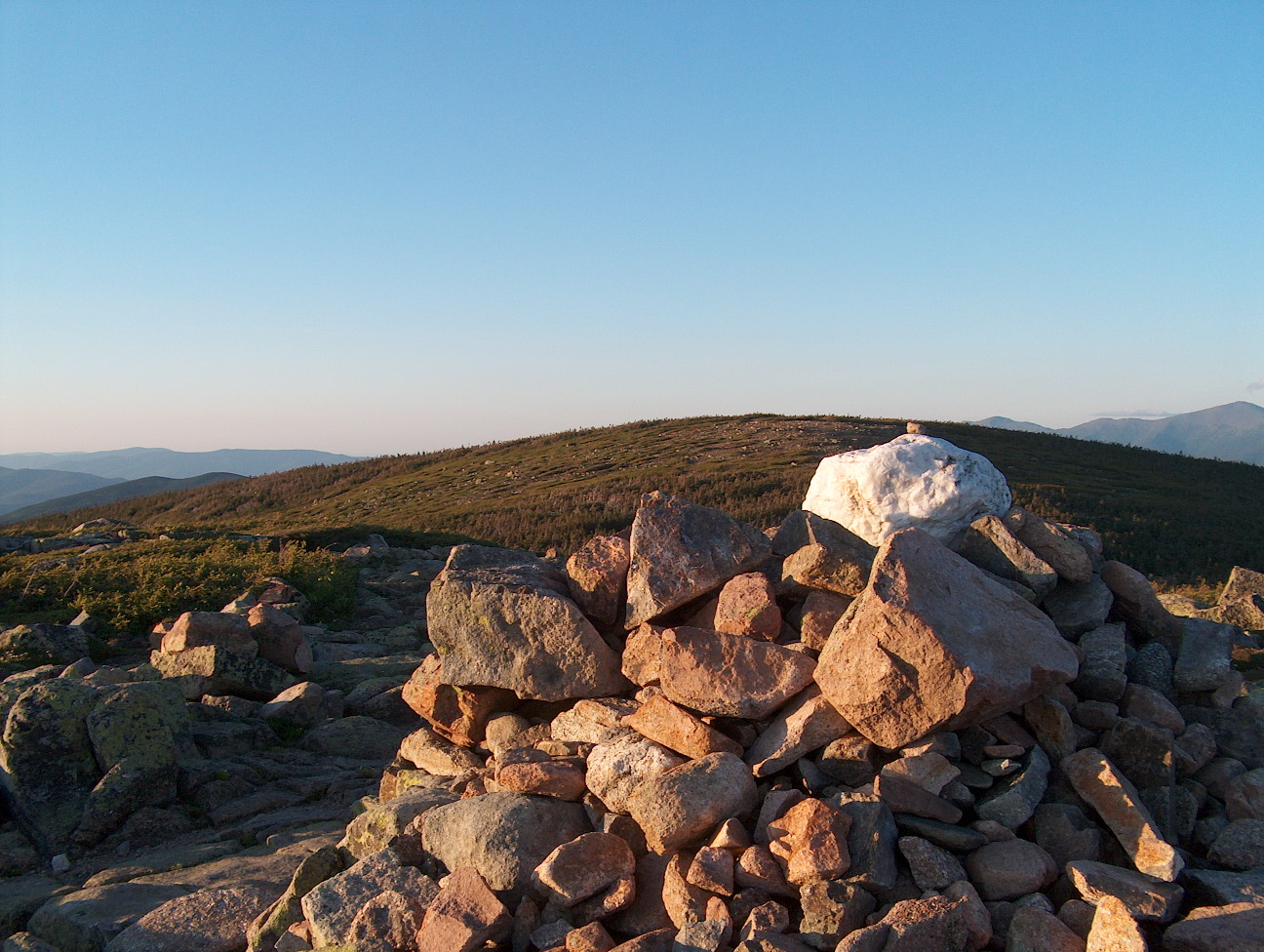 Mount Guyot in the White Mountains. Photo by Ken Gallager.